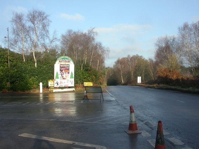 Advertising hoarding, Matchams Hoarding at the entrance to Matchams Leisure Park advertising "Lapland New Forest". A controversial experience that I was not willing to spend £30 to visit; some say that it does not live up to the claims made for it.